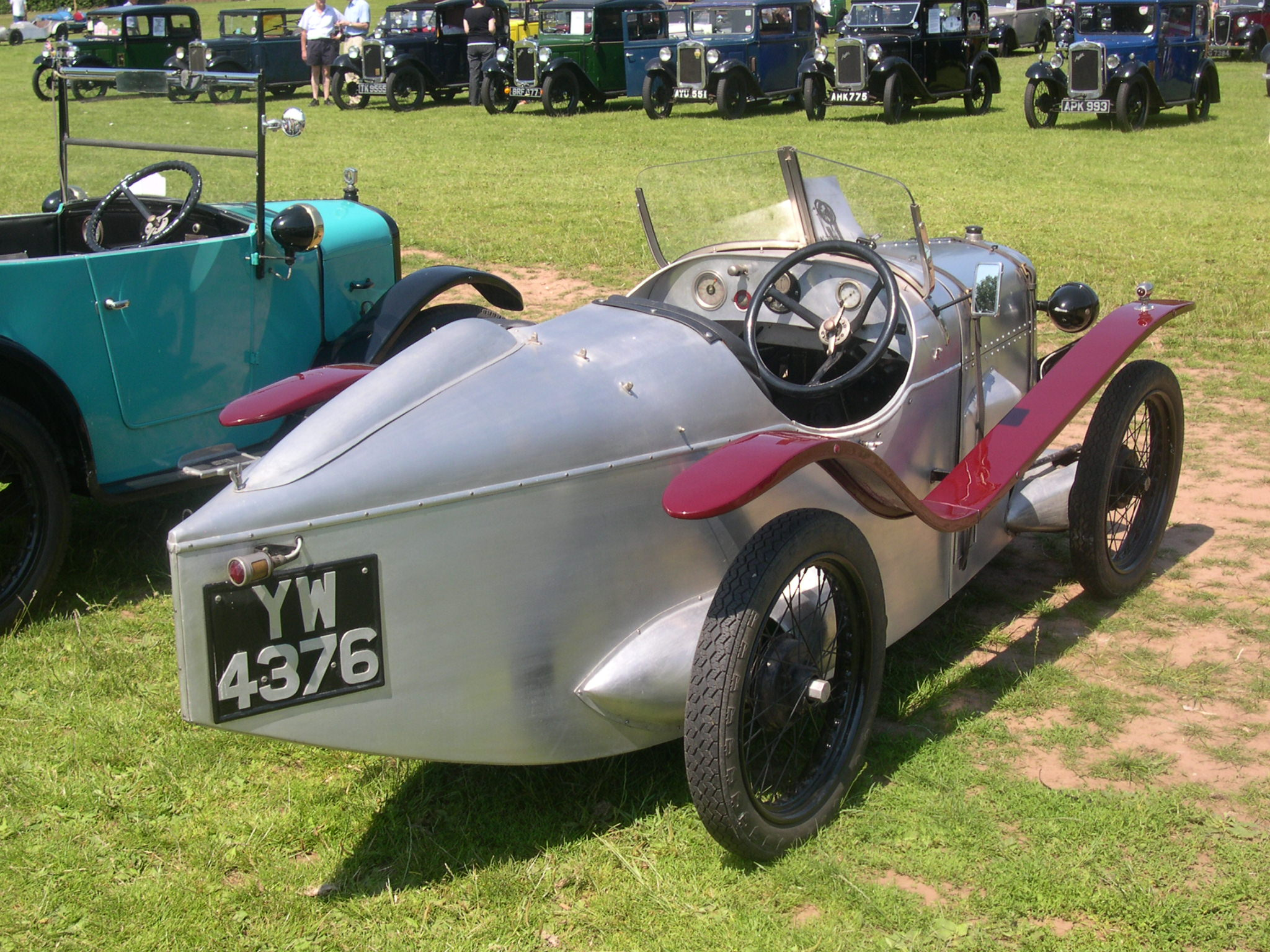 1926 Austin 7 Gordon England Brooklands Replica(DVLA) first registered 31 December 1926, 747cc